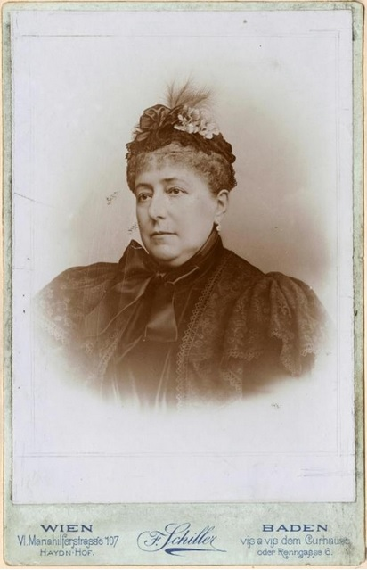 Archduchess Elisabeth Franziska of Austria